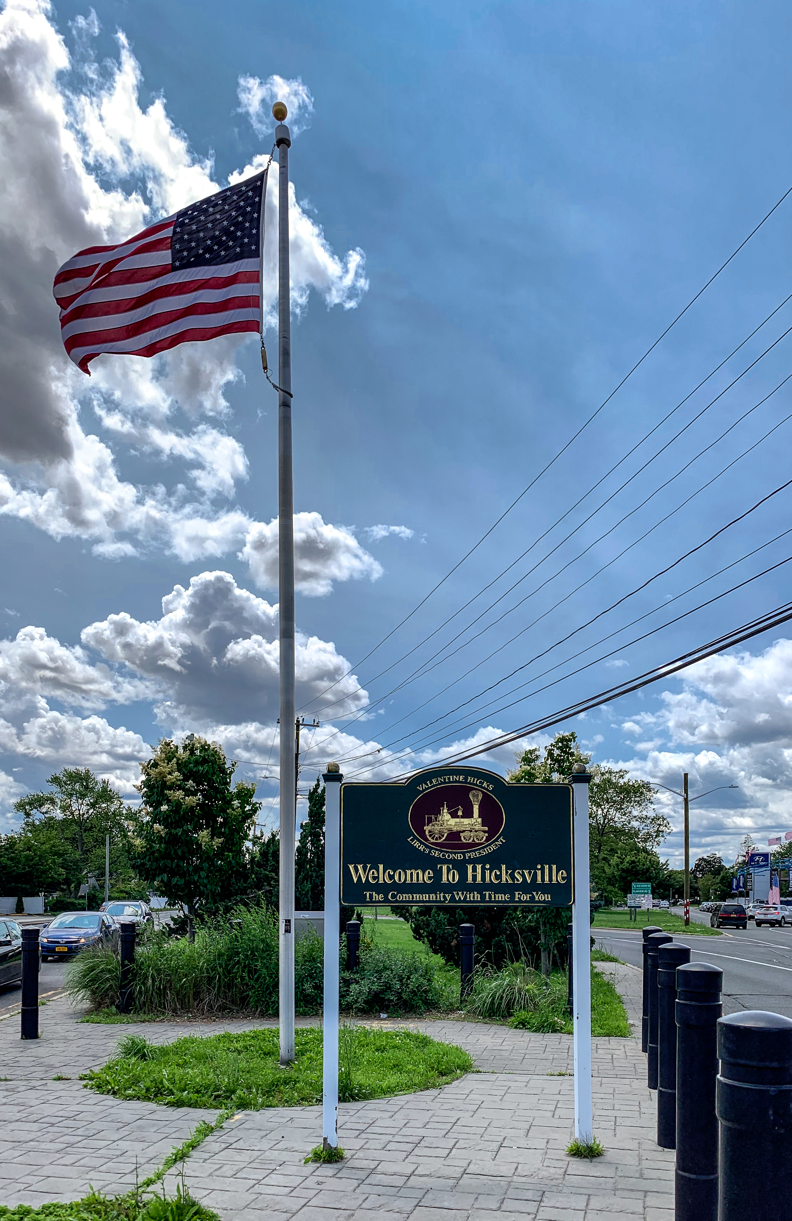 Welcome to Hicksville New York. The Community With Time for You.